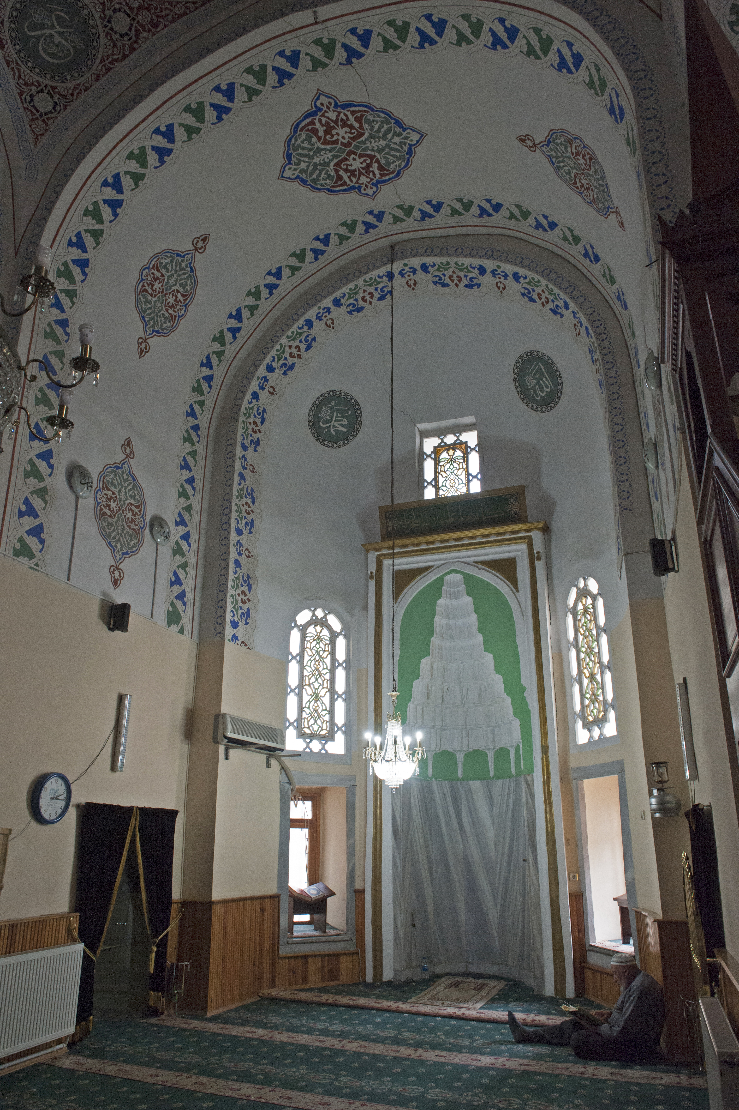 This is a small Byzantine church converted into a mosque known as Atik Mustafa Paşa Camii. Strolling through Istanbul, a great guidebook, tells us it was until recently (I quote from my 1989 edition) identified as the Church of SS. Peter and Mark; a designation that now is generally abandoned, without a convincing alternative. It seems to be a 9th century church of which the Gül Camii and Kalenderhane Camii are earlier and grander examples. The wooden porch, dome and drum are seen as Turkish restorations. For the rest the church preserves its original plan which is simple and, for a Byzantine structure, regular. A dome, “doubtless originally on a fairly high drum with windows, covers the centre of the cross; the arms are barrel-vaulted, as are the four small rooms beyond the dome piers which fill up the corners of the cross; they are entered through high, narrow arches. The three apses, semicircular within, have three faces on the exterior. It must have been an attractive little church and it still has a decayed charm”. From the Wikipedia I understand the mosque is also named “Cabir Mosque”, there the claim is made it is from the 121-12th century. Inside is a türbe (tomb), which the Wikipedia names the “The alleged türbe (tomb) of Hazreti Cabir (Jabir) in the south apse.” Elsewhere in the article a full name is given: Hazreti Cabir (Jabir) Ibn Abdallah-ül-Ensamı, one of the companions of Eyüp.